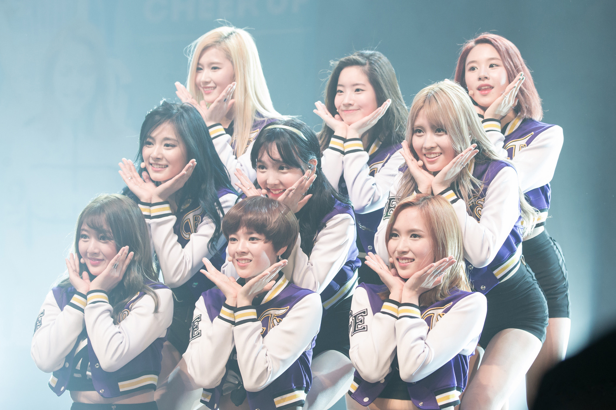 Twice performing "Cheer Up" at their comeback showcase